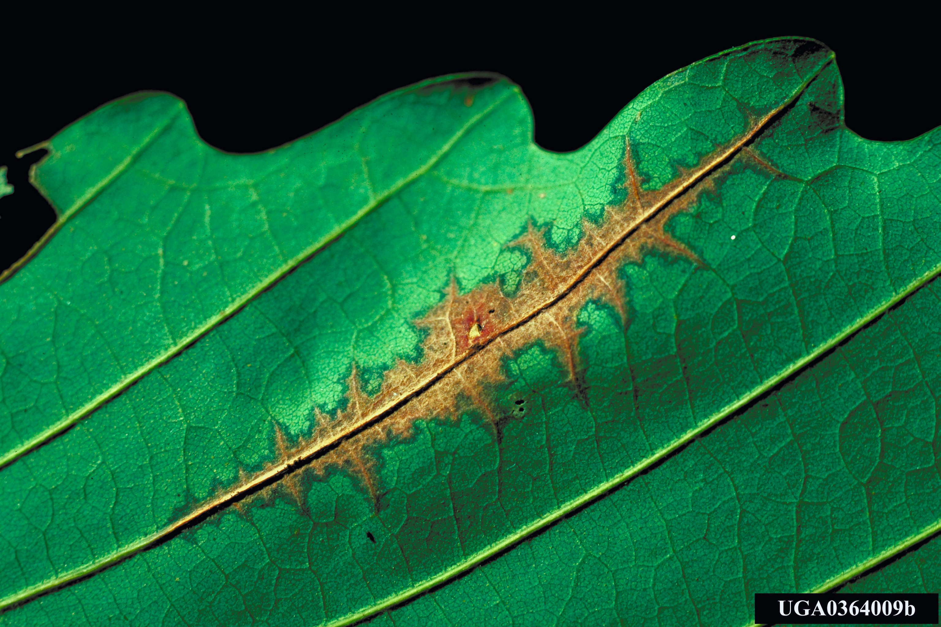 leaf symptoms of oak anthracnose